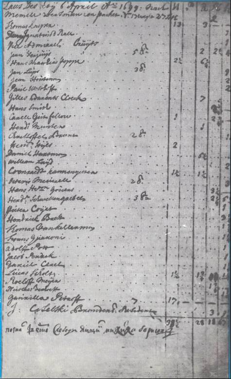 A page from a notebook of Andrei A. Vinius (1641—1717), Russian statesman, first Russian postmаster. Dated April 6th, 1699.